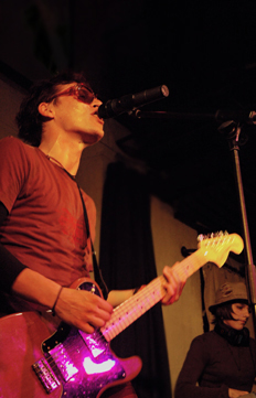 Beesadaptic